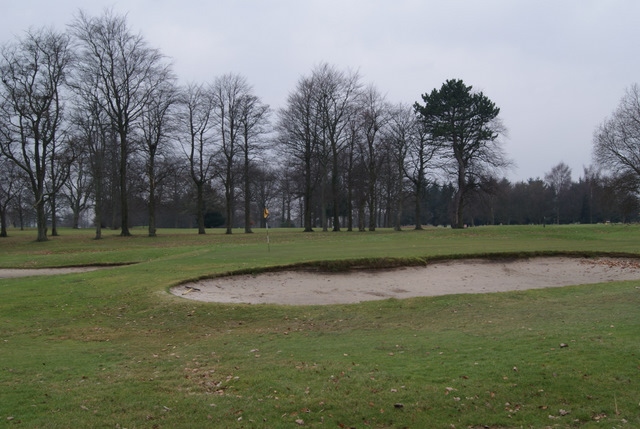 Renfrew Golf Club Viewed from the footpath by the River Clyde.